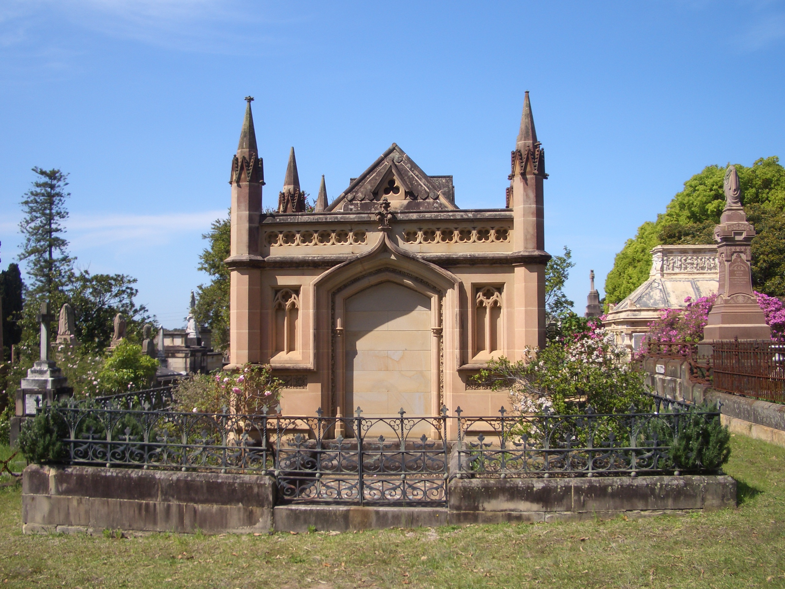 Rookwood Cemetery, Sydney